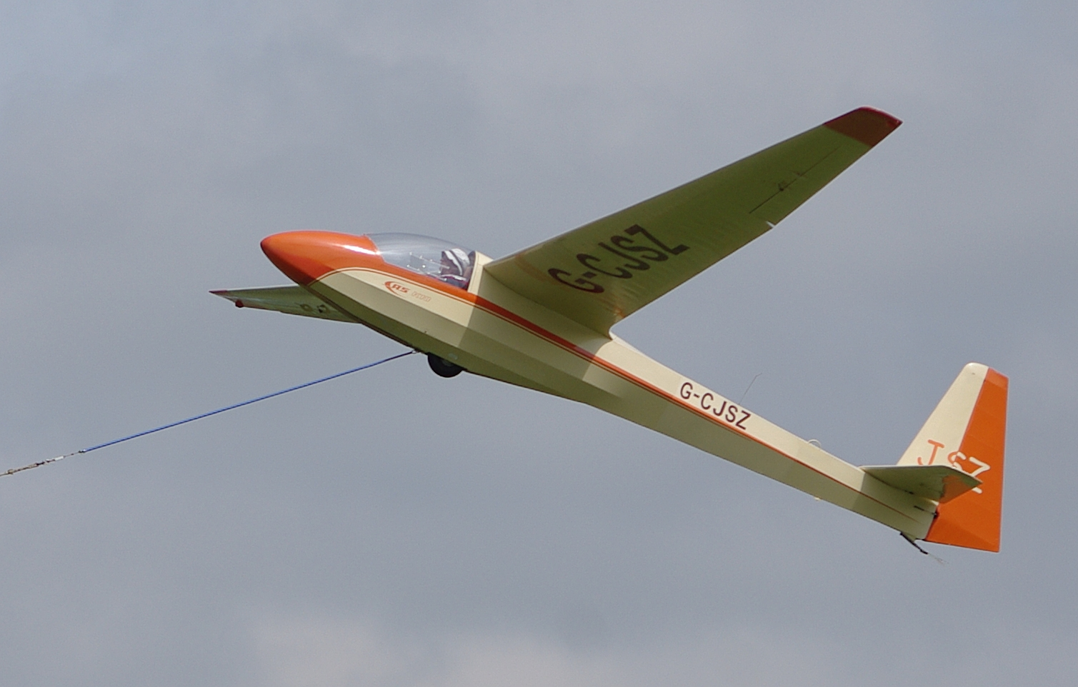 Schleicher K 8B G-CJOB/JOB at the Vintage Glider Club Rally, Camphill Derbyshire